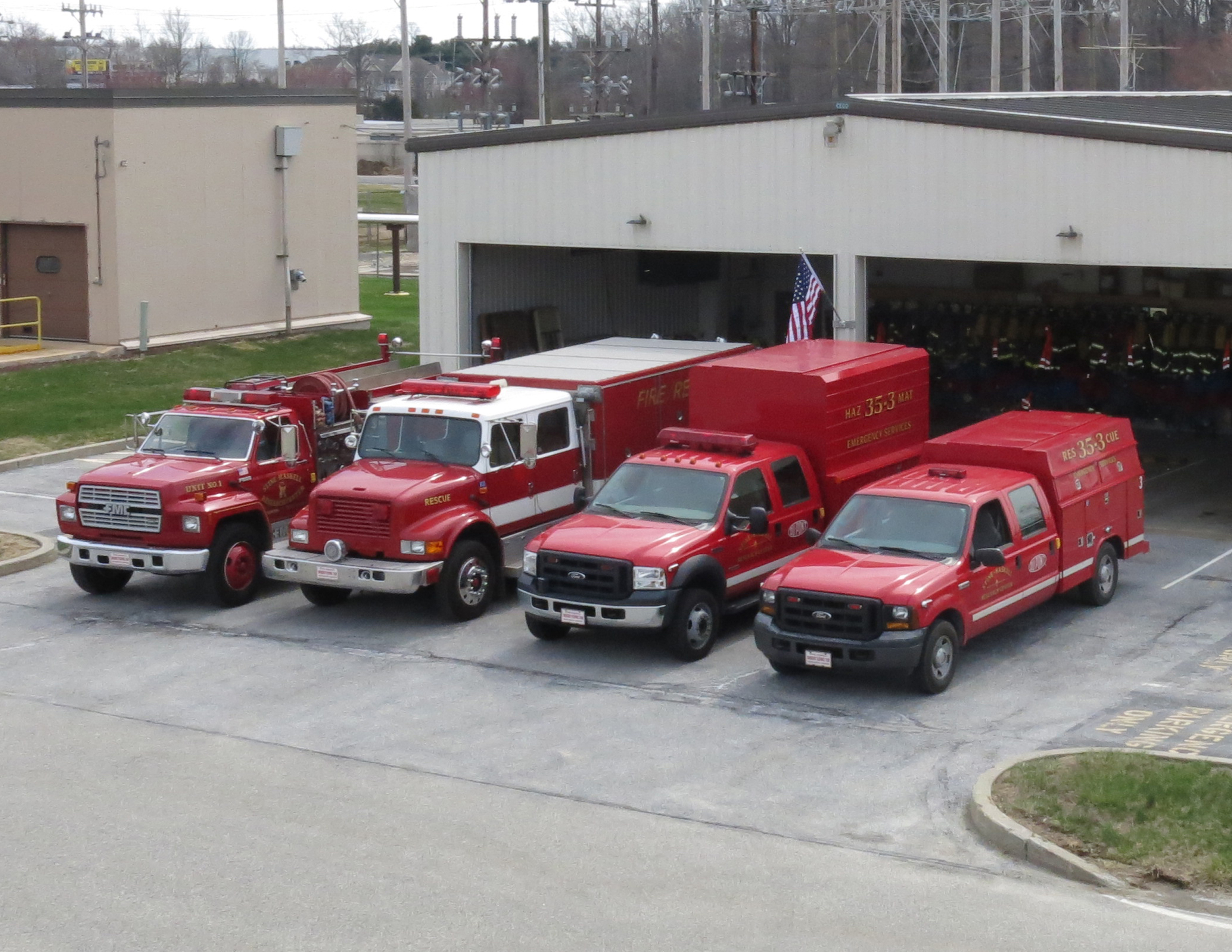 ERT 1, 1988 Ford FMC; ERT 4, 1991 Emergency One; ERT 2, 2005 Ford - Reading, ERT 3, 2005 Ford - Reading